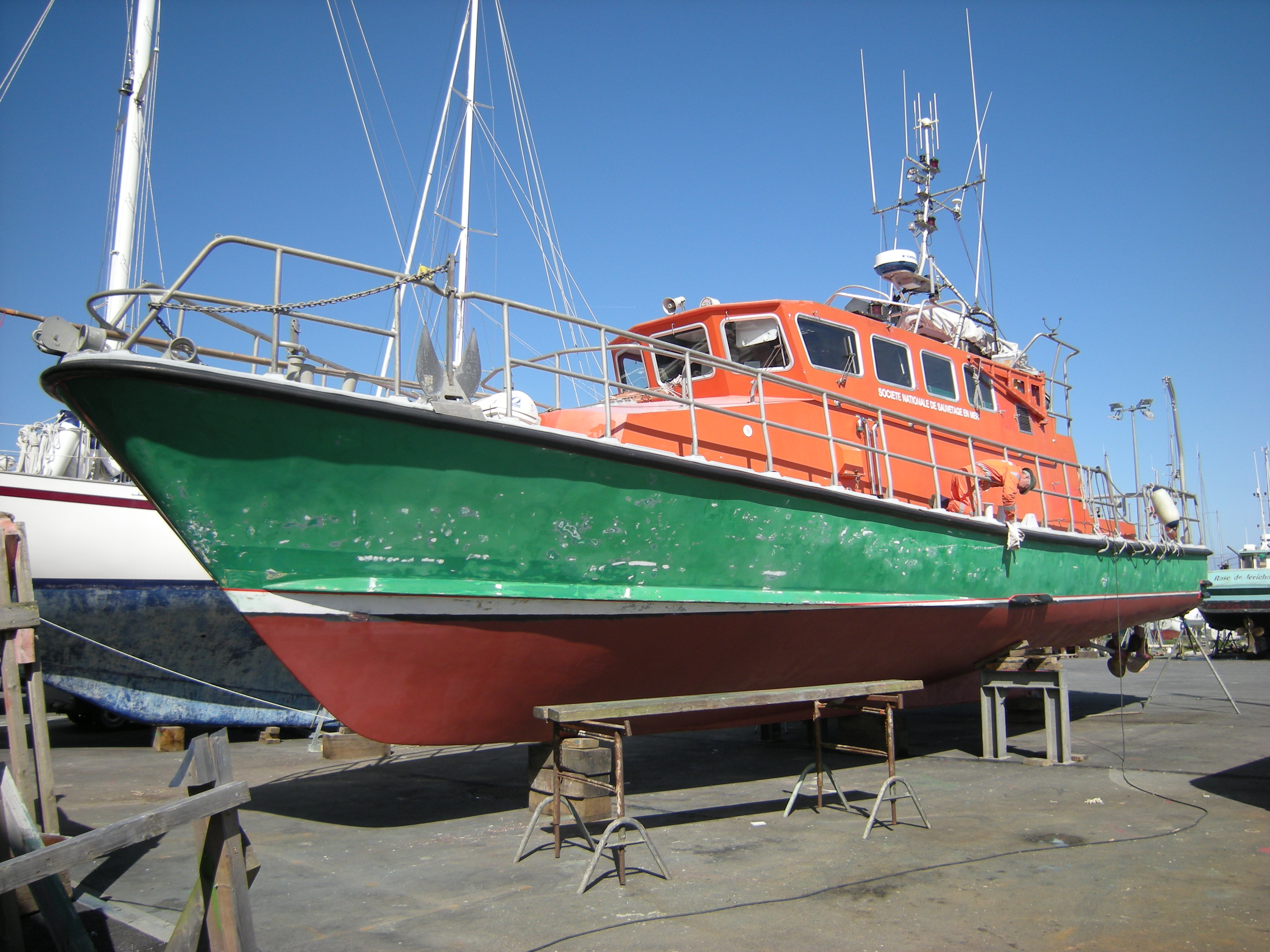 Sant Ivy (SNS 90), rescue boat of France. SNSM, Loguivy-de-la-Mer, Ploubazlanec